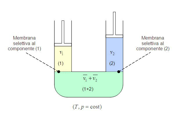 Partial molar quantities - Experiment to show differences between partial molar quantities and molar quantities.